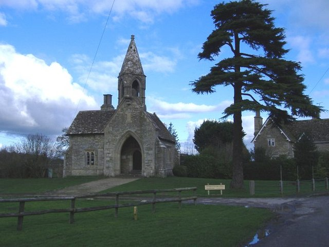 Victorian school, Sevington An authentic village schoolroom, closed in 1949, but re-opened in 1991 as an educational resource. Still almost unchanged, with some of the original desks, slates, coal fires and oil lamps. Pupils have a first-hand experience of Victorian education, in costume and in role. The day is run by ‘Miss Squire’, the Sevington schoolmistress.